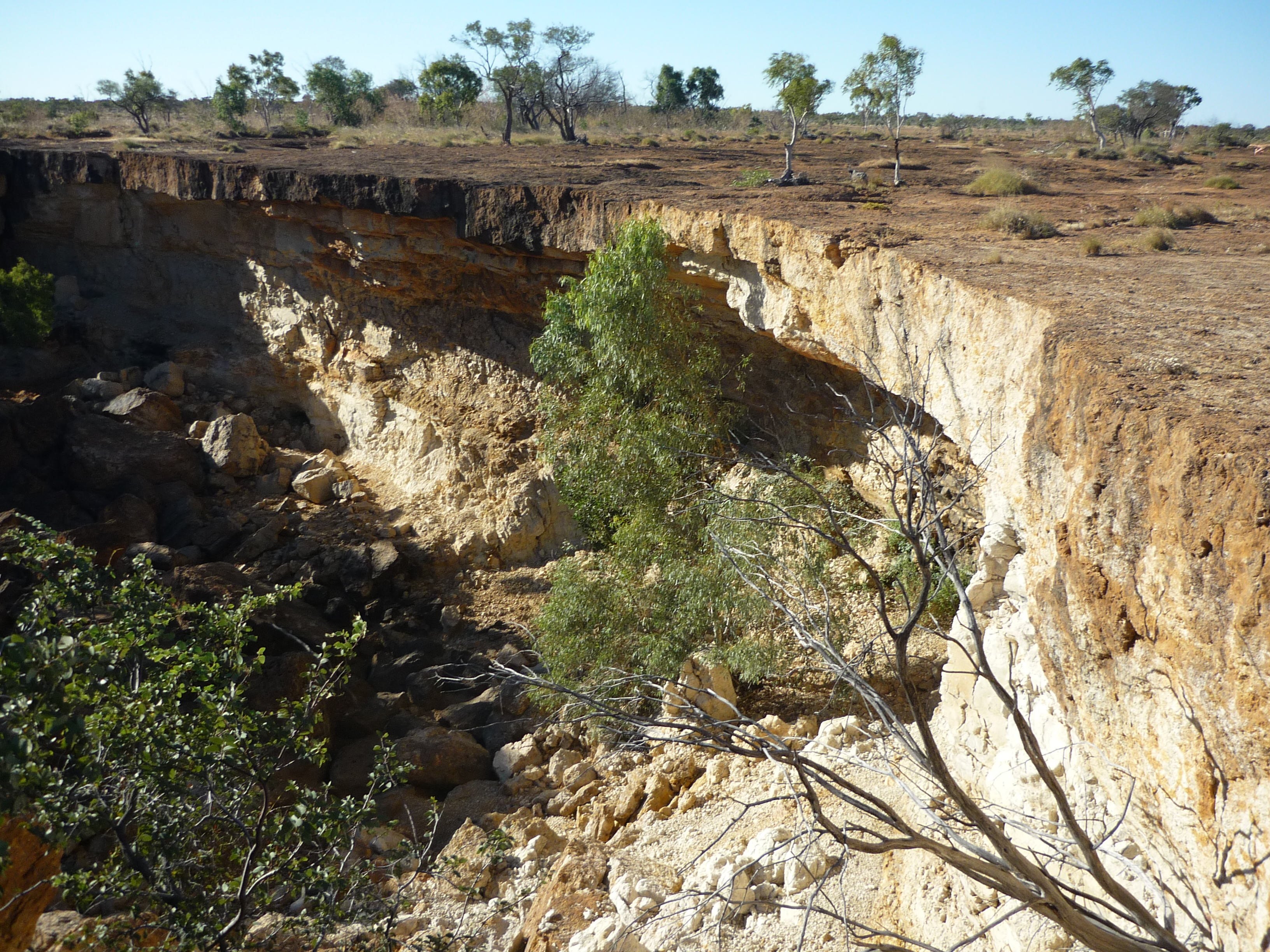 Photo of Scrammy Gorge in Bladensburg National Park near Winton.